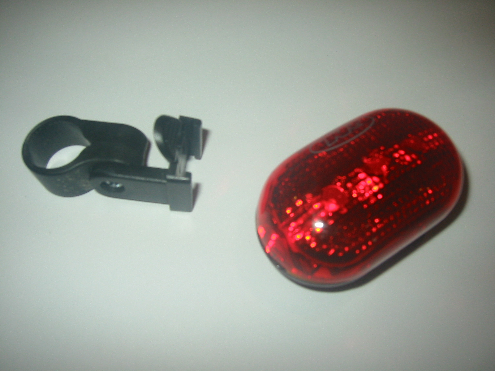 Rear bicycle LED light